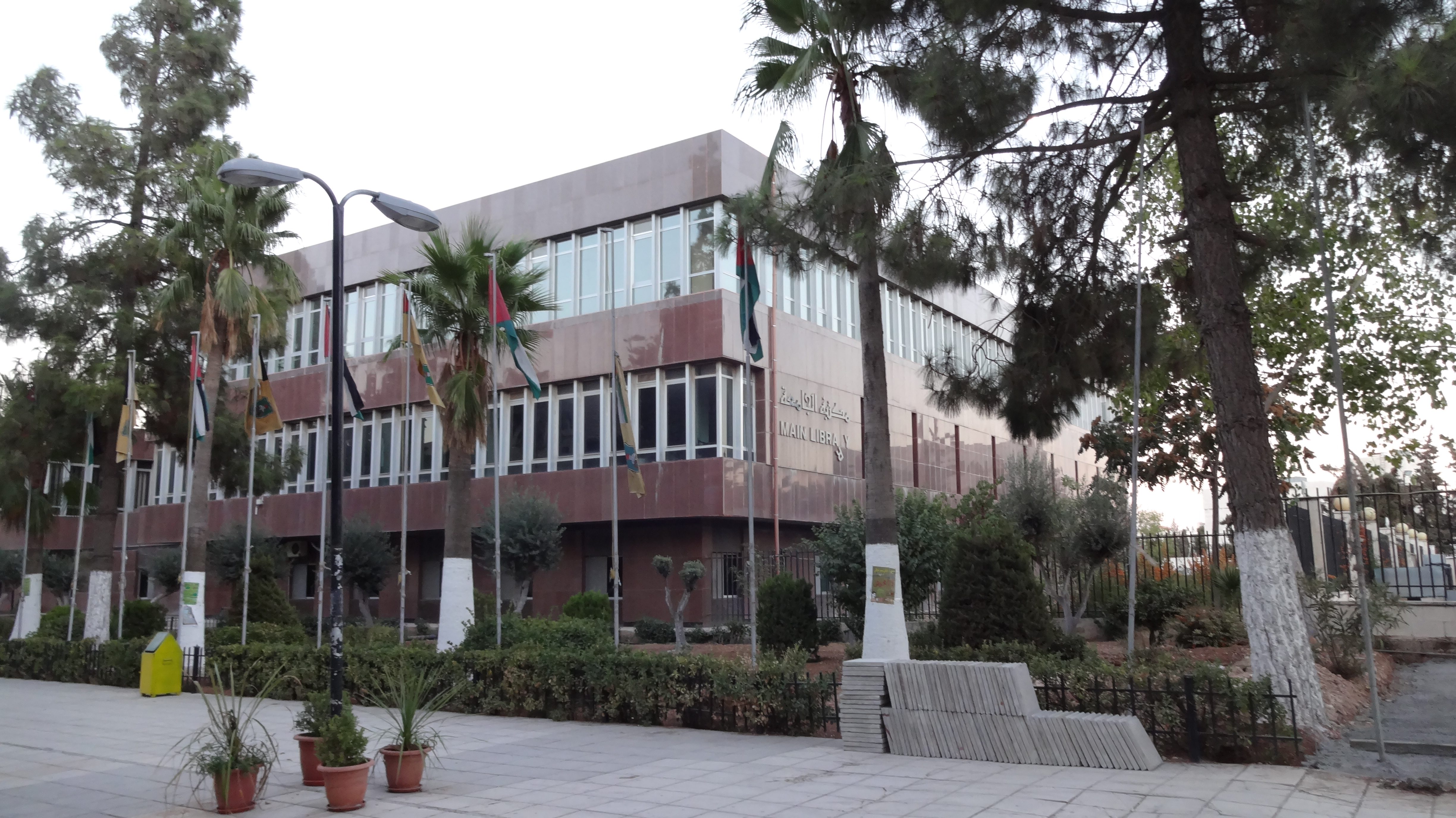 The University of Jordan, often abbreviated UJ, is a state-supported university located in Amman, Jordan. Founded in 1962, it is the largest and oldest institution of higher education in Jordan